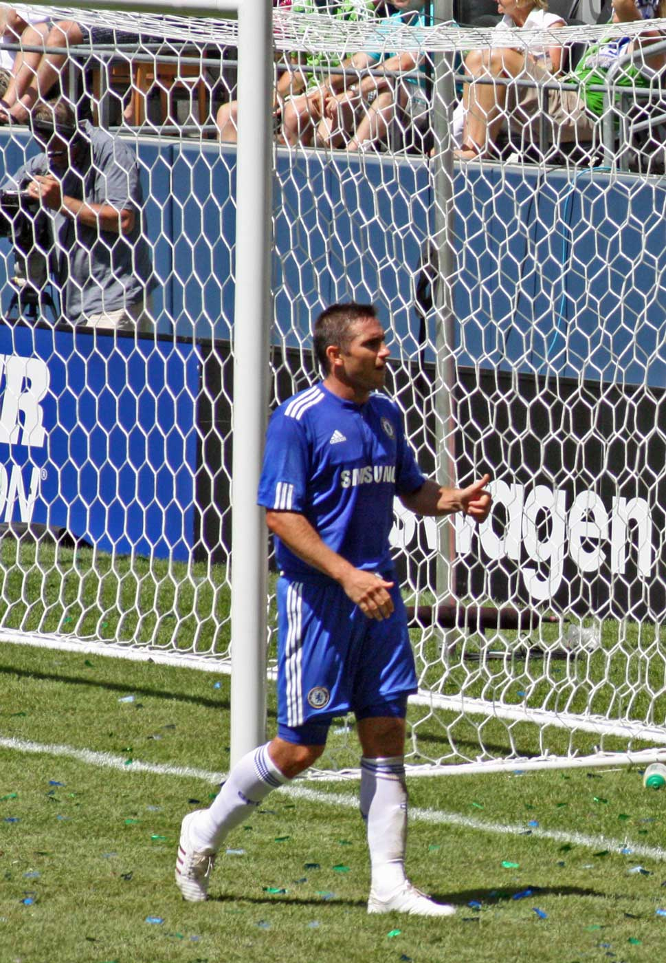 Frank Lampard playing for Chelsea in a friendly match against Seattle Sounders in 2009.